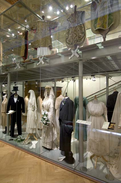 Textile in Museum of Decorative Art in Prague